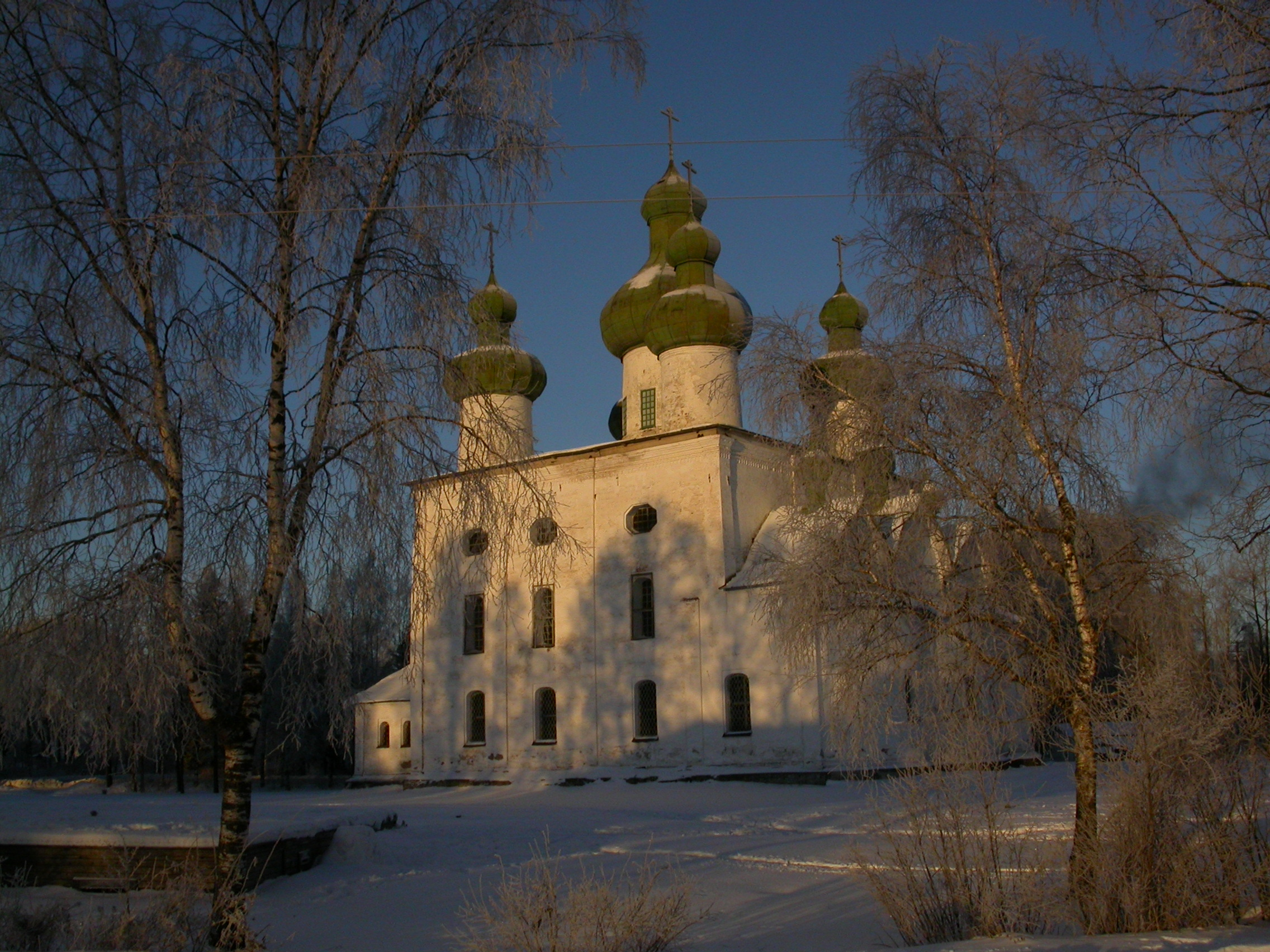 Kargopol (Russia)